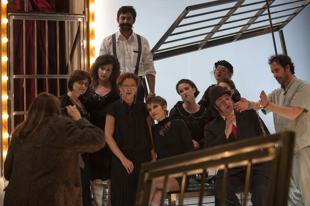 "The Threepenny Opera", a "play with music" by Bertolt Brecht, with music by Kurt Weill, directed by Tomi Janežič, Drama of the Serbian National Theatre & The Royal Theatre Zetski Dom (Co-Production), Cetinje, 2014/15 Srpski (latinica): „Opera za tri groša”, mjuzikl koji je napisao Bertold Breht, a za koji je muziku komponovao Kurt Veil; režija Tomi Janežič, Koprodukcija:Drama Srpskog narodnog pozorišta i Kraljevsko pozorište Zetski dom, 2014-15, Cetinje Српски (ћирилица): „Опера за три гроша“, мјузикл који је написао Бертолд Брехт, за који је музику компоновао Курт Веил; режија Томи Јанежич, Копродукција: Драма Српског народног позоришта и Краљевско позориште Зетски дом, 2014-15, Цетиње